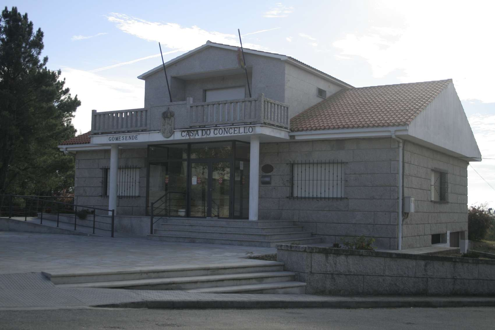 Town Hall in Gomesende (Spain)